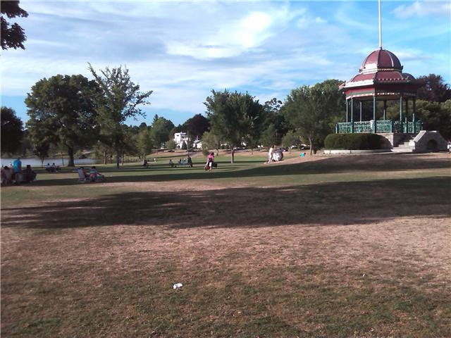 The Wakefield, Massachusetts town common shown on the evening of Friday, July 9, 2010, with the gazebo/bandstand at far right and the shores of Lake Quannapowitt at the far left.